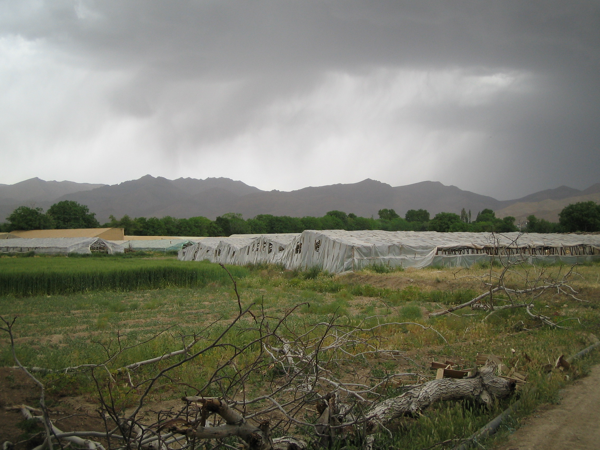 Landscape around Mahallat, Iran